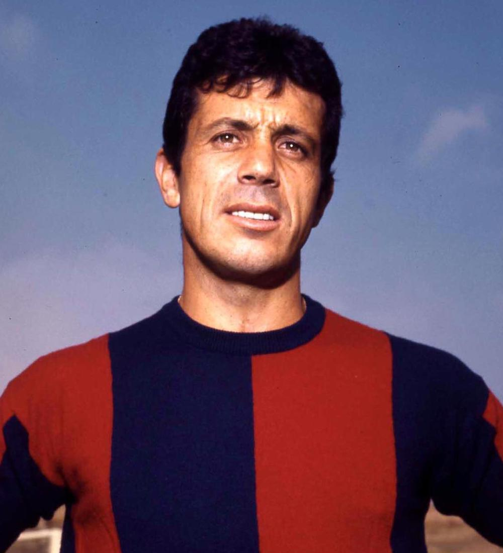 Italian footballer Francesco "Franco" Janich with Bologna F.C. between 1960s and 1970s.